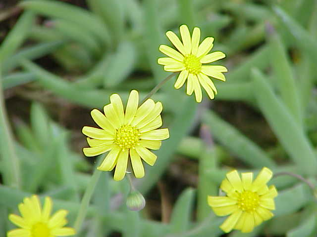 Species: Othonna capensis Family: Asteraceae Image No. 1